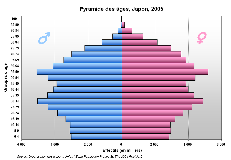 Japan Population pyramid, 2005.